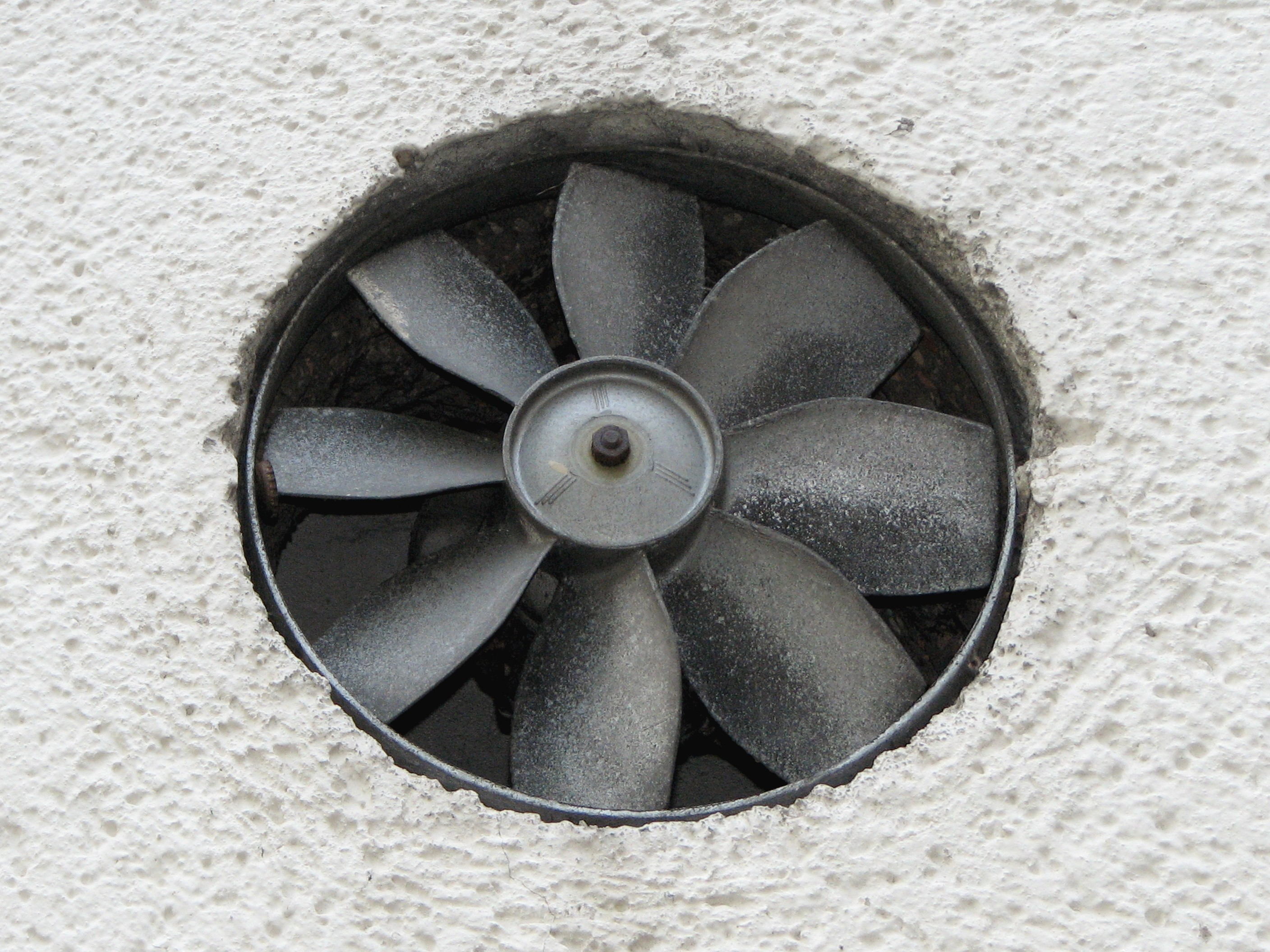 Exhaust fan located on side wall of building.